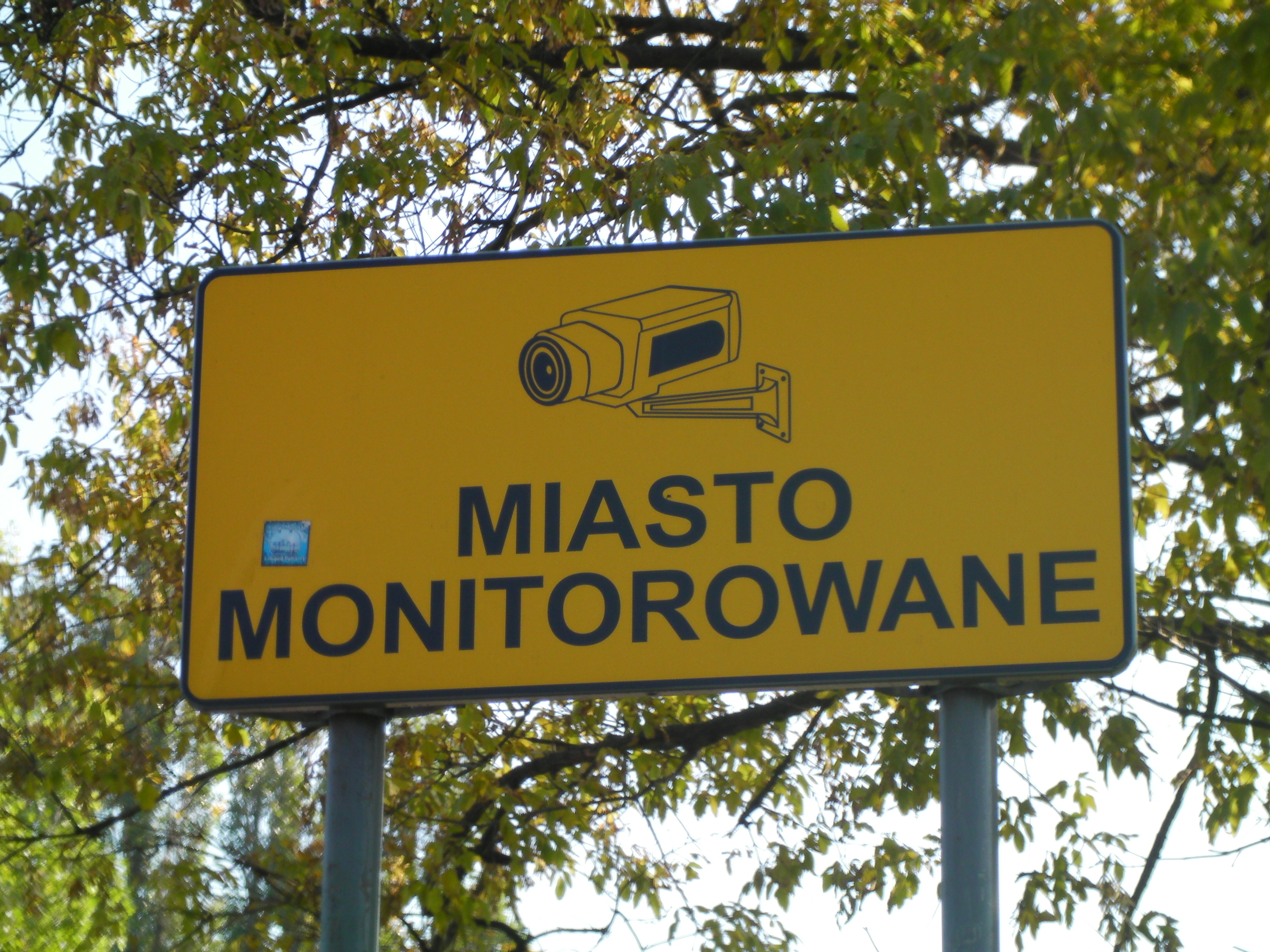 Sign with words "Surveillance city" in polish, Mińsk Mazowiecki, Poland.